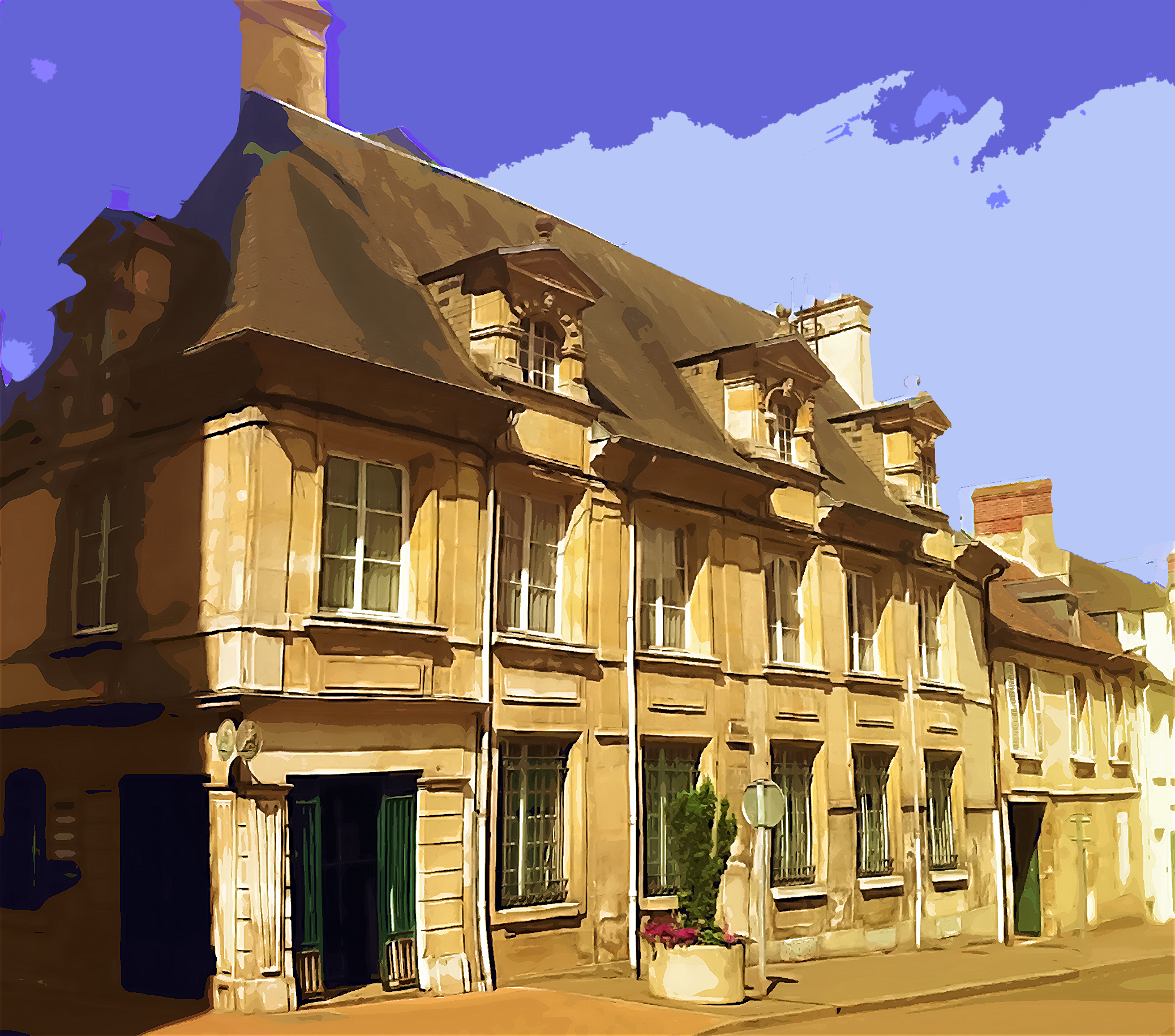 house of ango